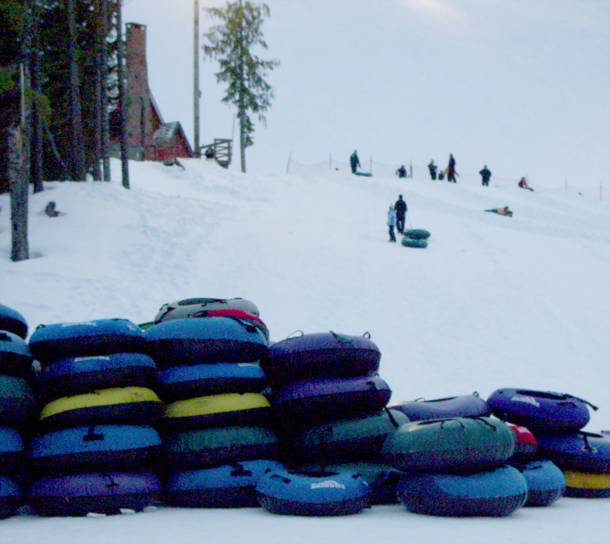 Tubes waiting for eager passengers beside tube run at Mount Hood Skibowl